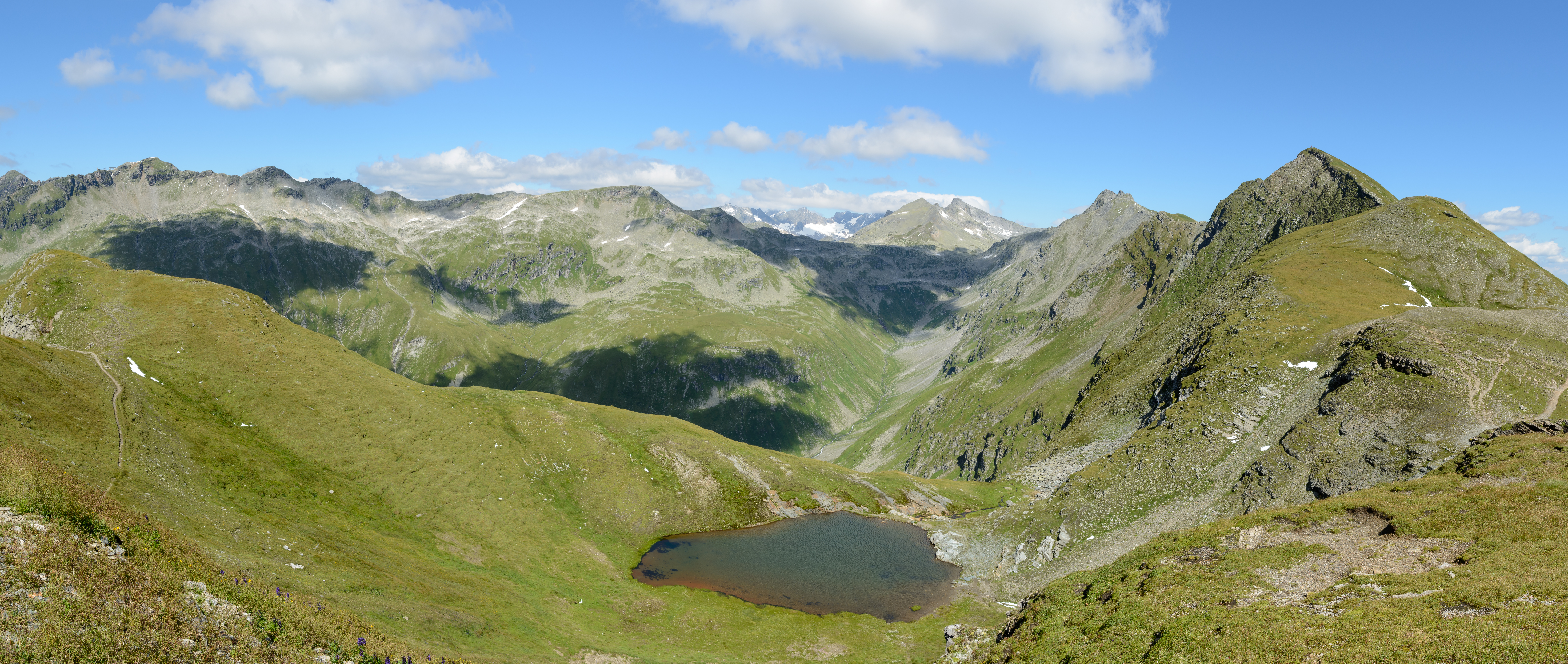 Panoramic view from the Hagener Hütte at the mountain pass Niederer Tauern near Mallnitz (Carinthia) towards Naßfeld Valley, High Tauern National Park, federal state of Salzburg, Austria